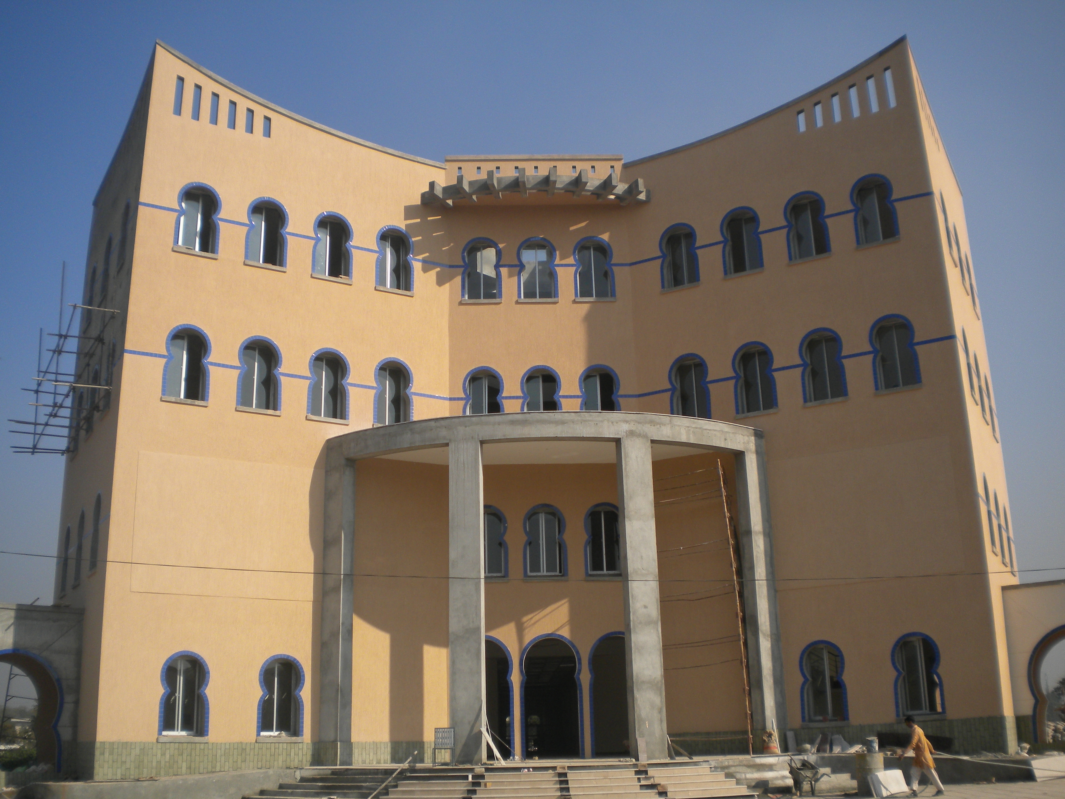 Allama Iqbal Open University, Islamabad